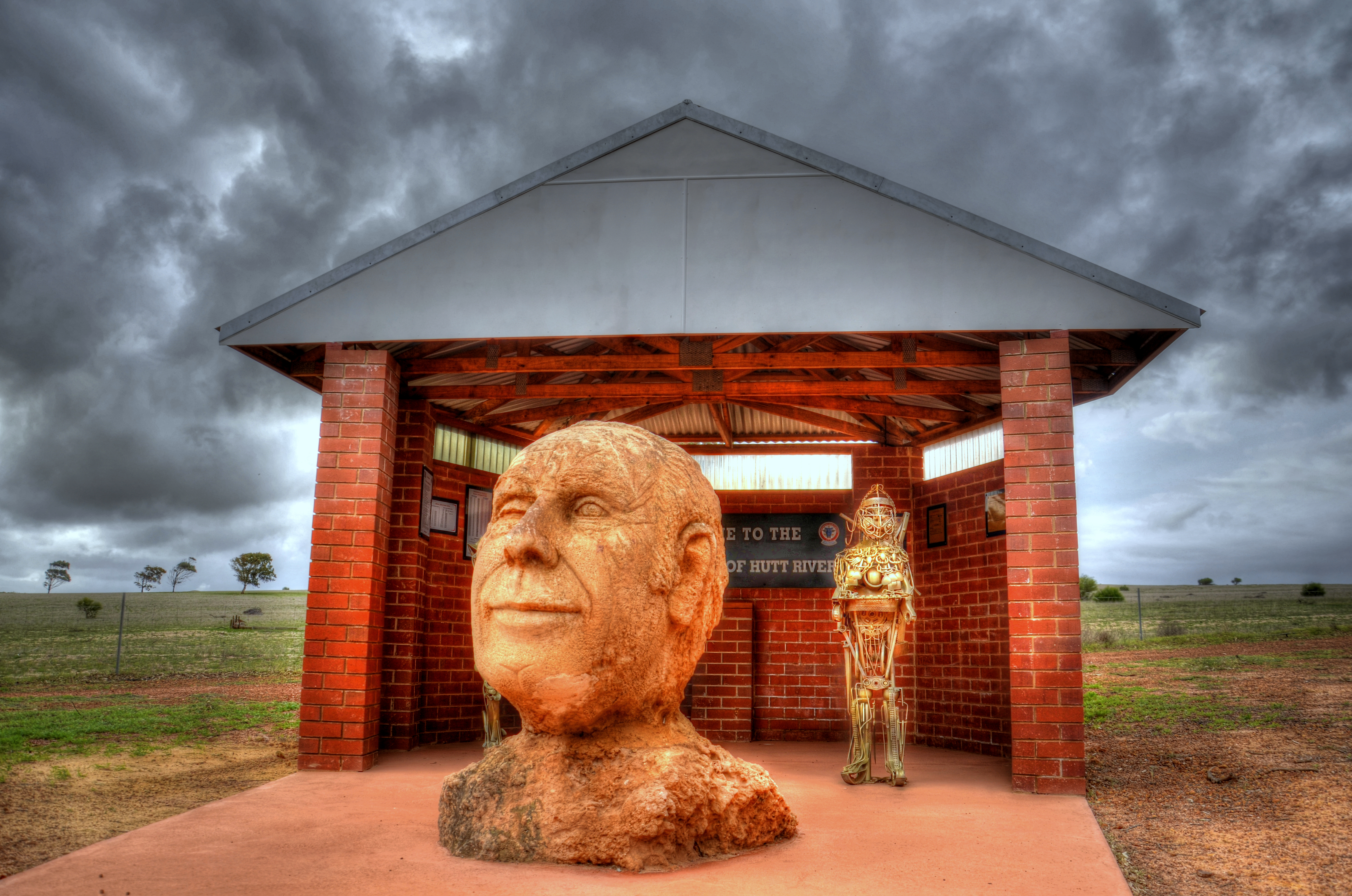 Statue of Leonard George Casley, founder of the Principality of Hutt River